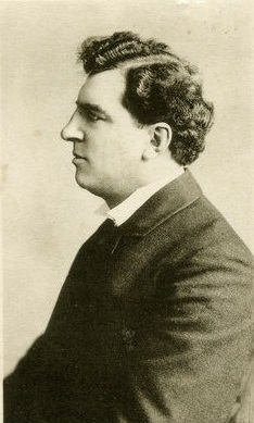 1906 George Hay Morgan Liberal MP Truro 1906-18